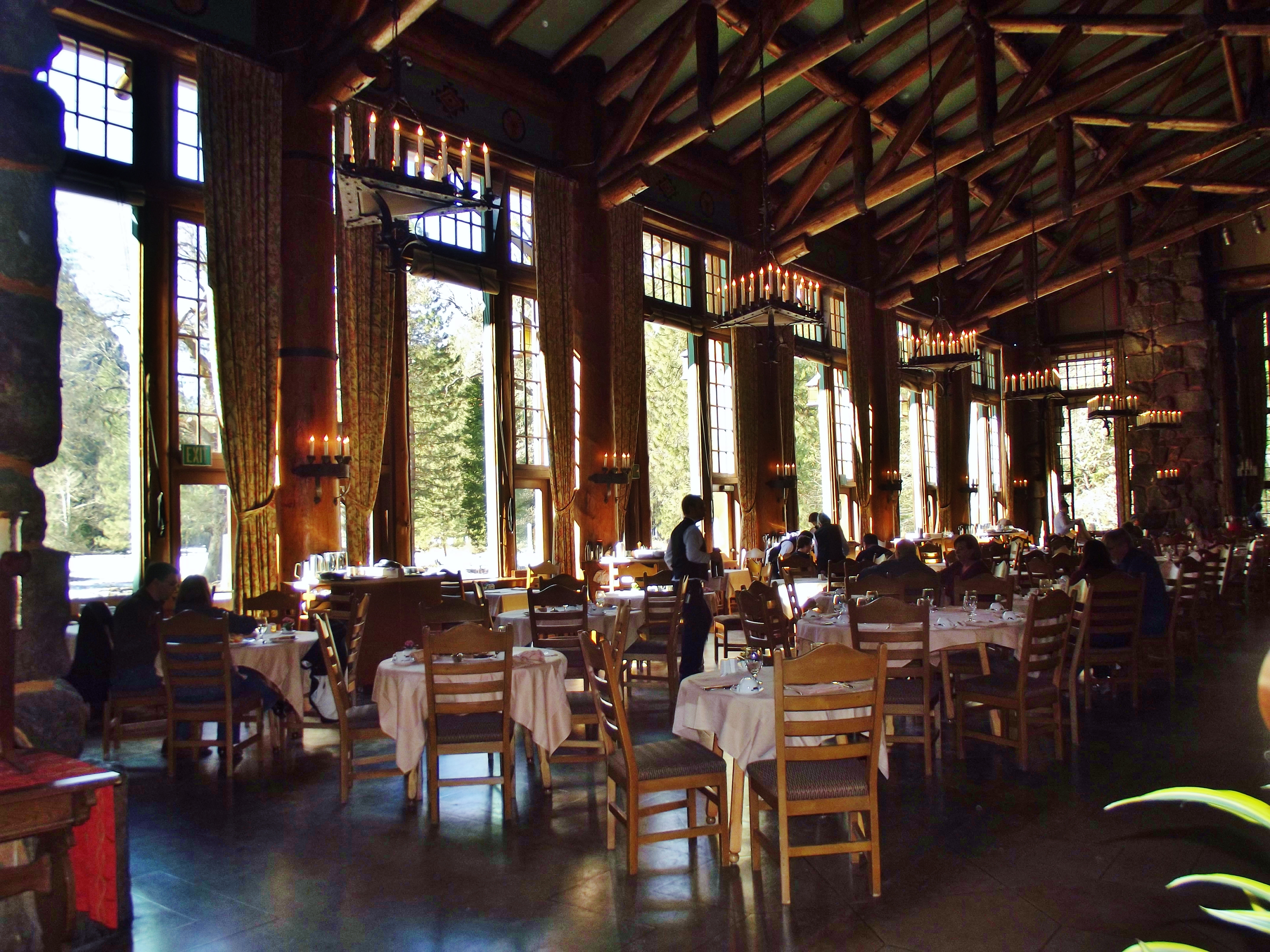 The Ahwahnee Hotel, Grand Dining Room.